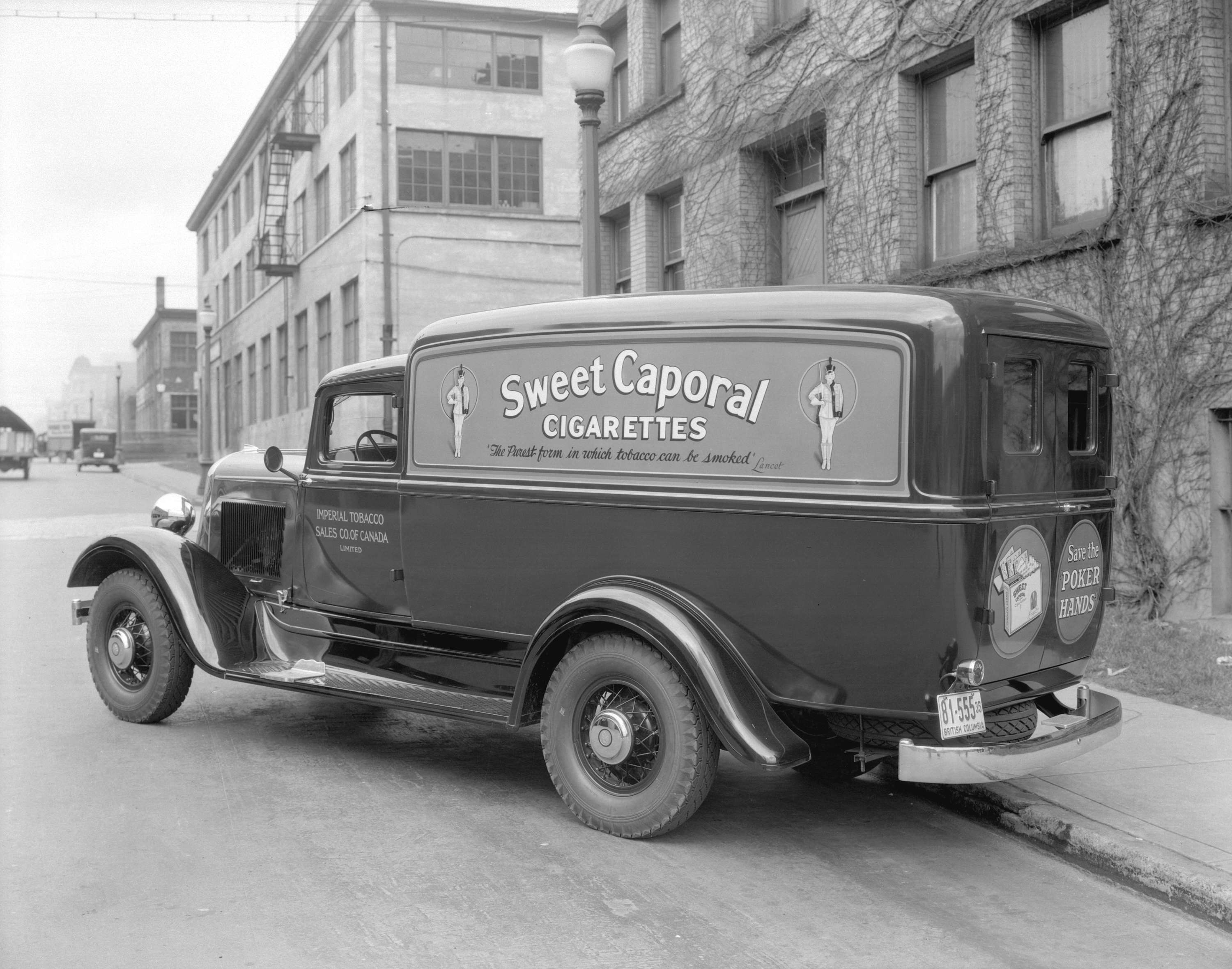 Imperial Tobacco Company "Sweet Caporal Cigarettes" truck in Vancouver by Stuart Thompson. City of Vancouver Archive collection: 1 photograph : b&w acetate negative ; 19 x 24 cm Reference code: CVA 99-4726 Photographer's number 2892